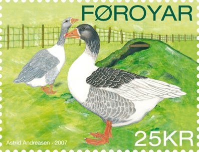 Stamp FO 606 of the Faroe Islands - Geese